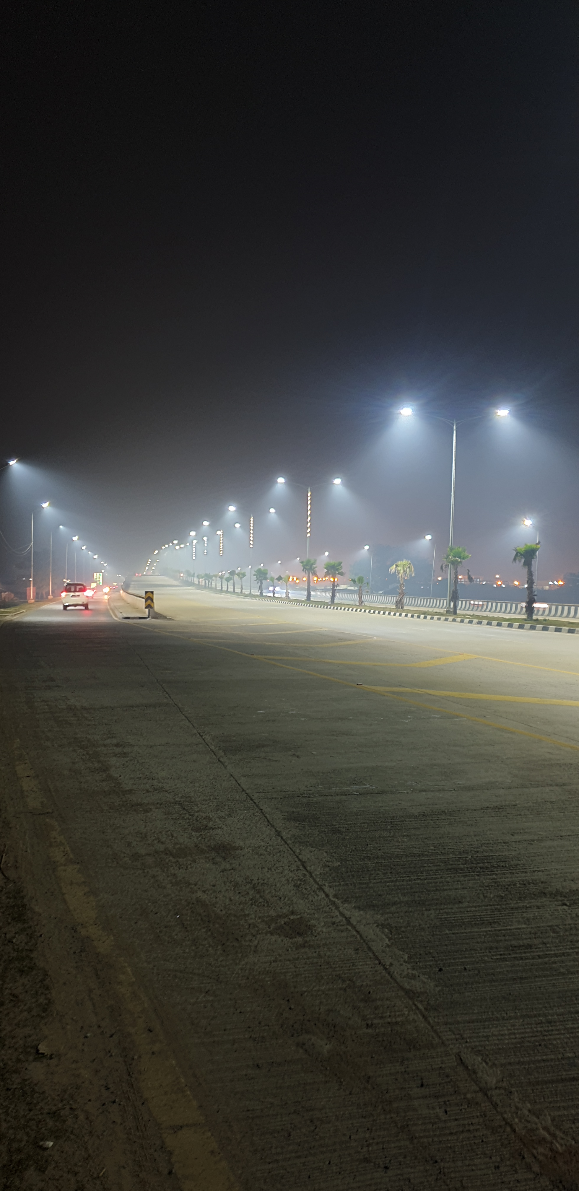 Ring Road Phase I